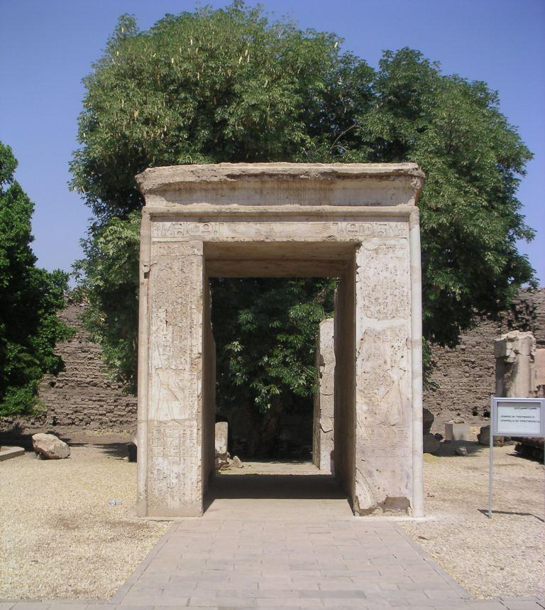 Chapel of Thutmose IV; Open air museum of Karnak-18th dynasty